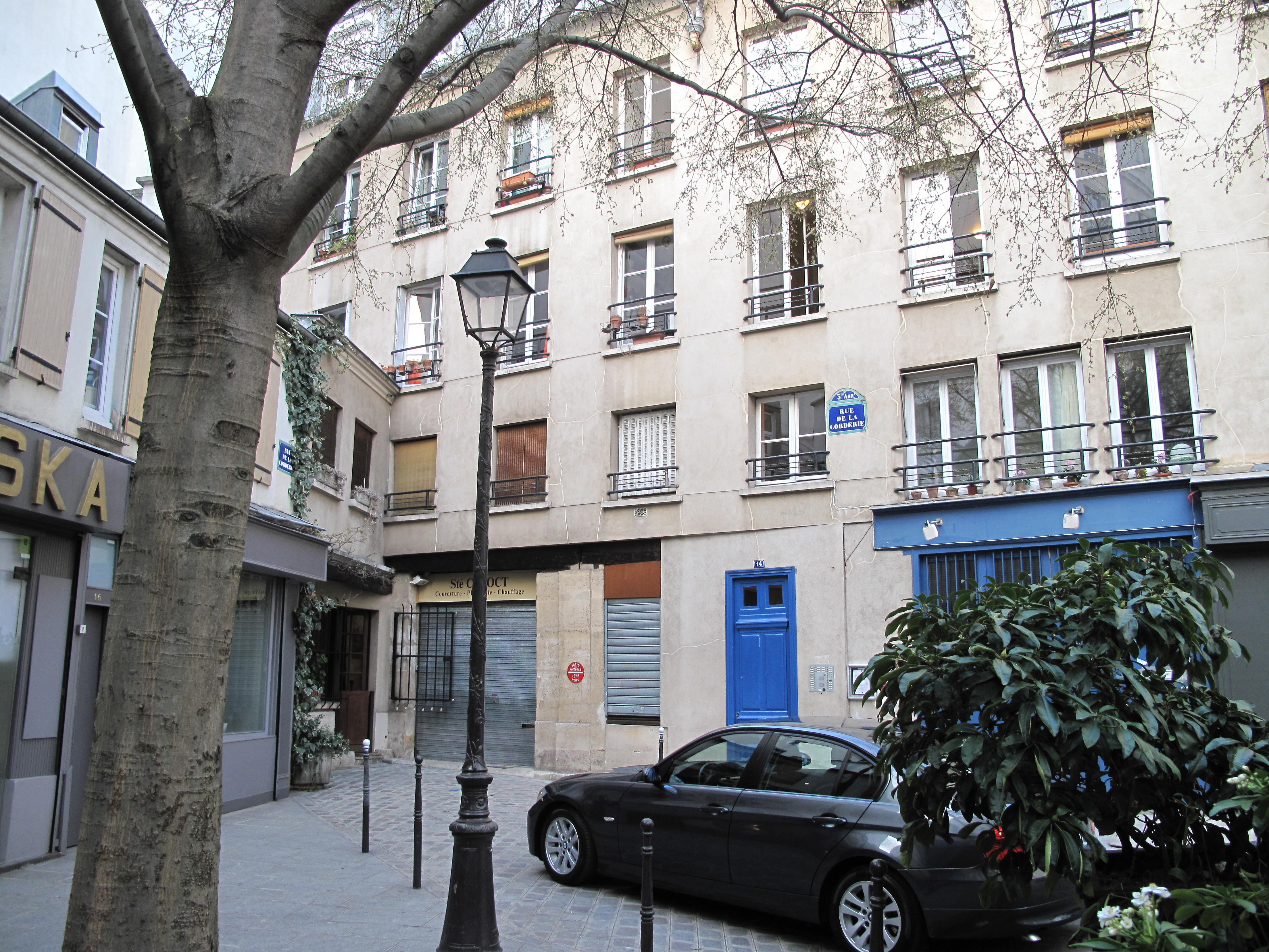 House of the 14 rue de la corderie where the International Workingmen's Association (also known as First International) decided the insurrection of Paris on february 2, 1871 : Paris 3rd arr.